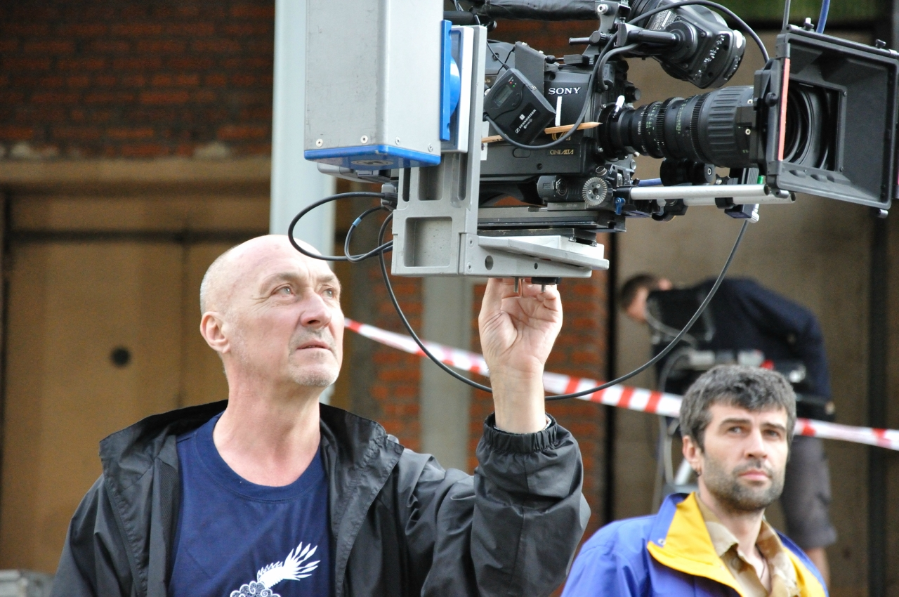 за работой